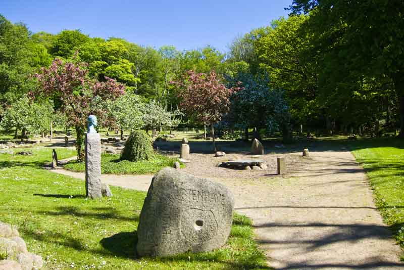 Boolsens stonegarden, Frederikshavn, Denmark